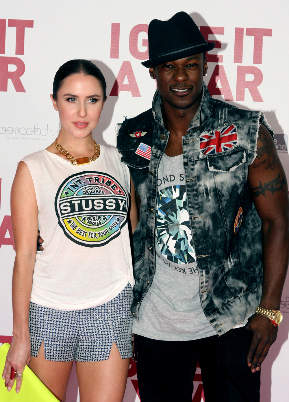 Talia Fowler with Timomatic 2013 at the Australian premiere of I GIVE IT A YEAR at Event Cinemas George Street. The film stars Simon Baker, Rafe Spall, Anna Faris, Minnie Driver and Stephen Merchant and comes from Working Title Films, the producers of Bridget Jones’s Diary, Love Actually and Notting Hill. Starting where other romantic comedies finish, I GIVE IT A YEAR charts the trials and tribulations of a young, mismatched couple during their first year of marriage. Josh (Rafe Spall) and Nat’s (Rose Byrne) wedding is a dream come true, but family and friends think it won’t last. When Josh’s ex-girlfriend Chloe (Anna Faris) and Nat’s handsome new client Guy (Simon Baker) come into the picture, the situation gets a little more complicated. Neither wants to be the first to give up, but will they make it? Featuring a brilliant ensemble cast, the London-set I GIVE IT A YEAR is a modern and thoroughly funny ride through love, chemistry and compatibility. I GIVE IT A YEAR will be released Nationally on 28 February 2013.